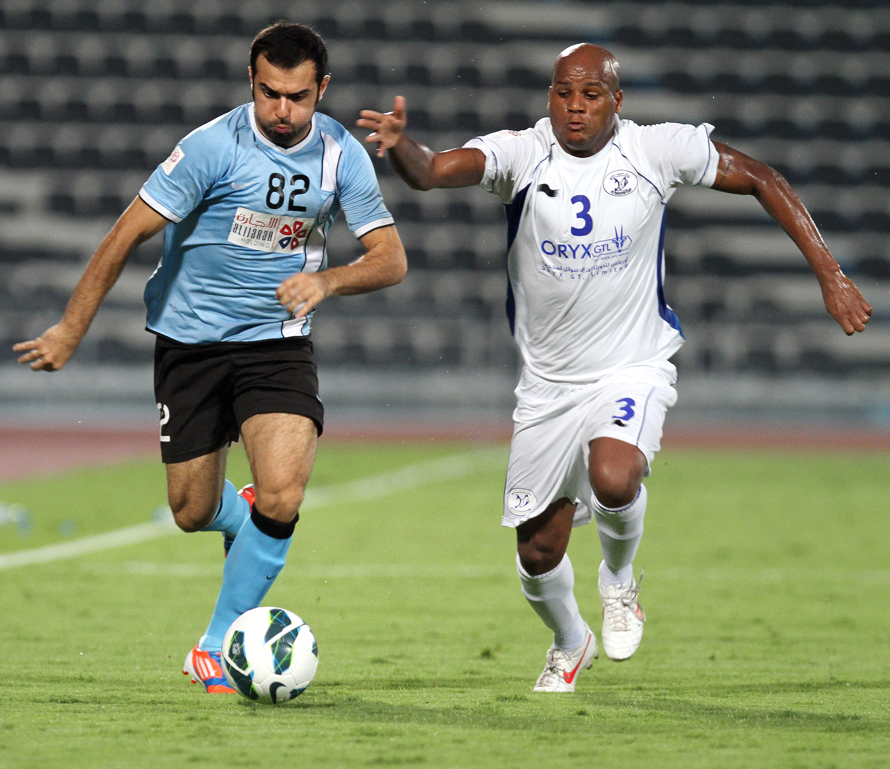 Al Wakrah's Ali Mejbel, left, vies for the ball with Al Kharaitiyat's Brazilian professional Domingos Nascimento in the Qatar Stars League. Picture by Vinod Divakaran